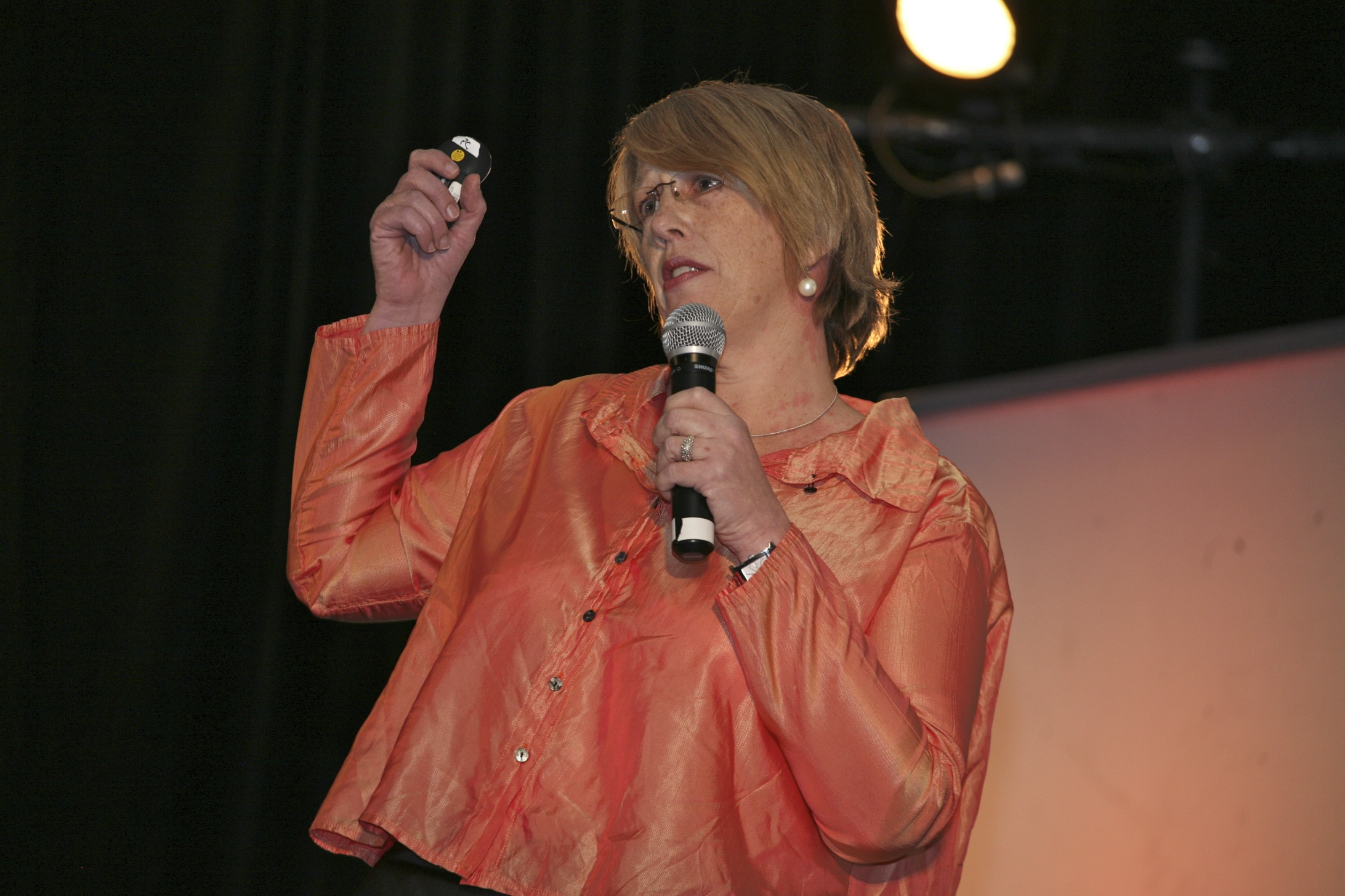 Mary Lou Jepsen at eTech in 2009.